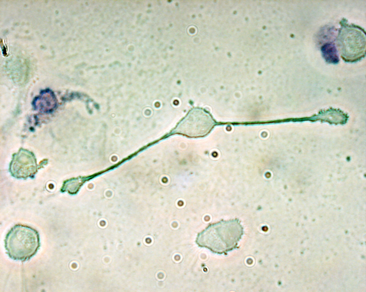 A macrophage of a mouse forming two processes to phagocytize two smaller particles, possibly pathogens.